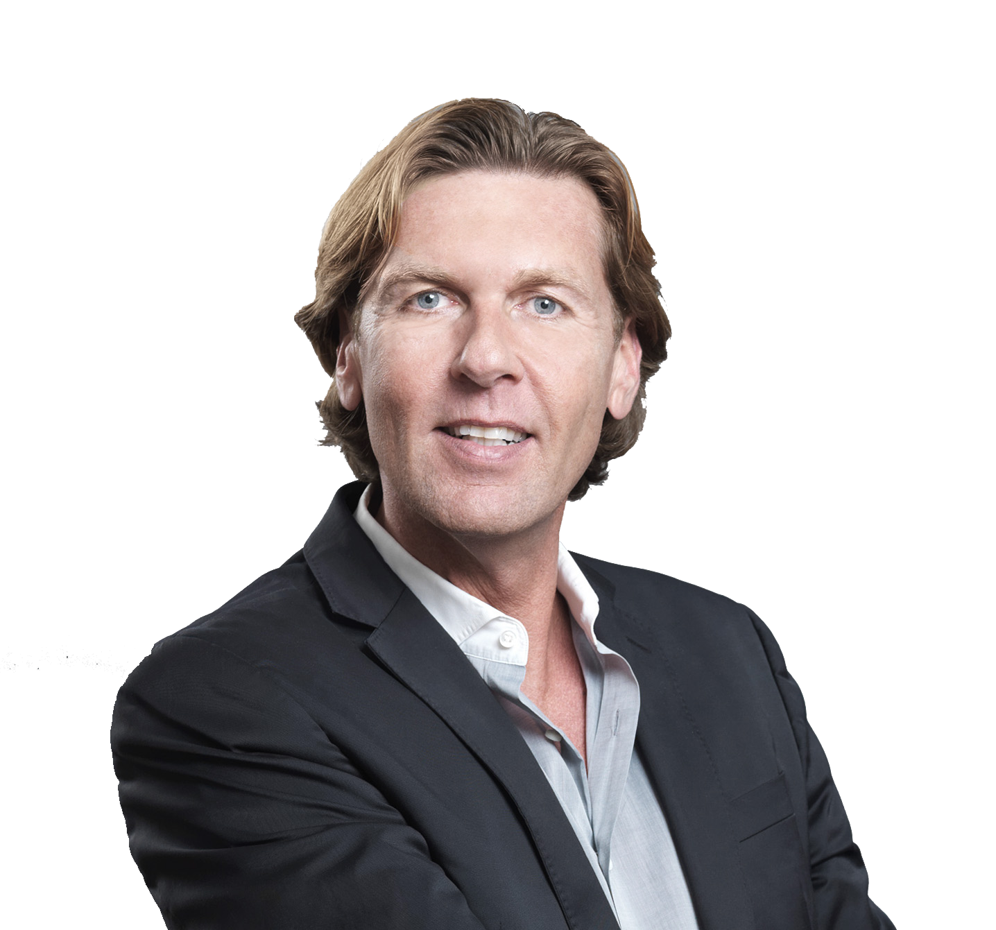 Carsten K. Rath - Entrepreneur and Keynote Speaker